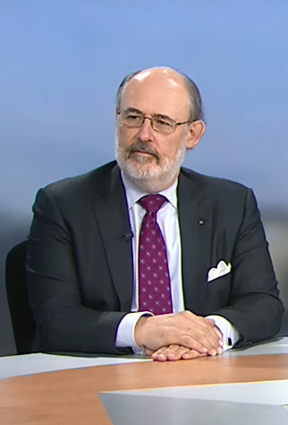 picture